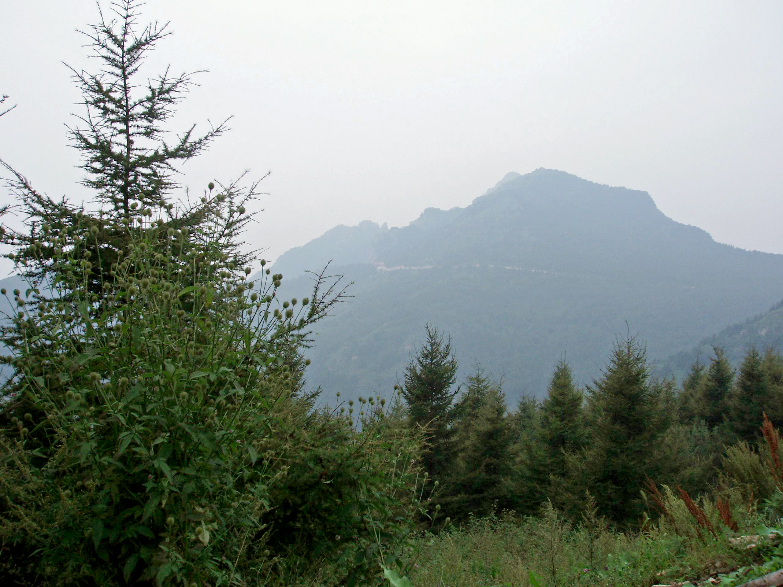 Taihang Shan Mountains in North China; trees are Larix principis-rupprechtii